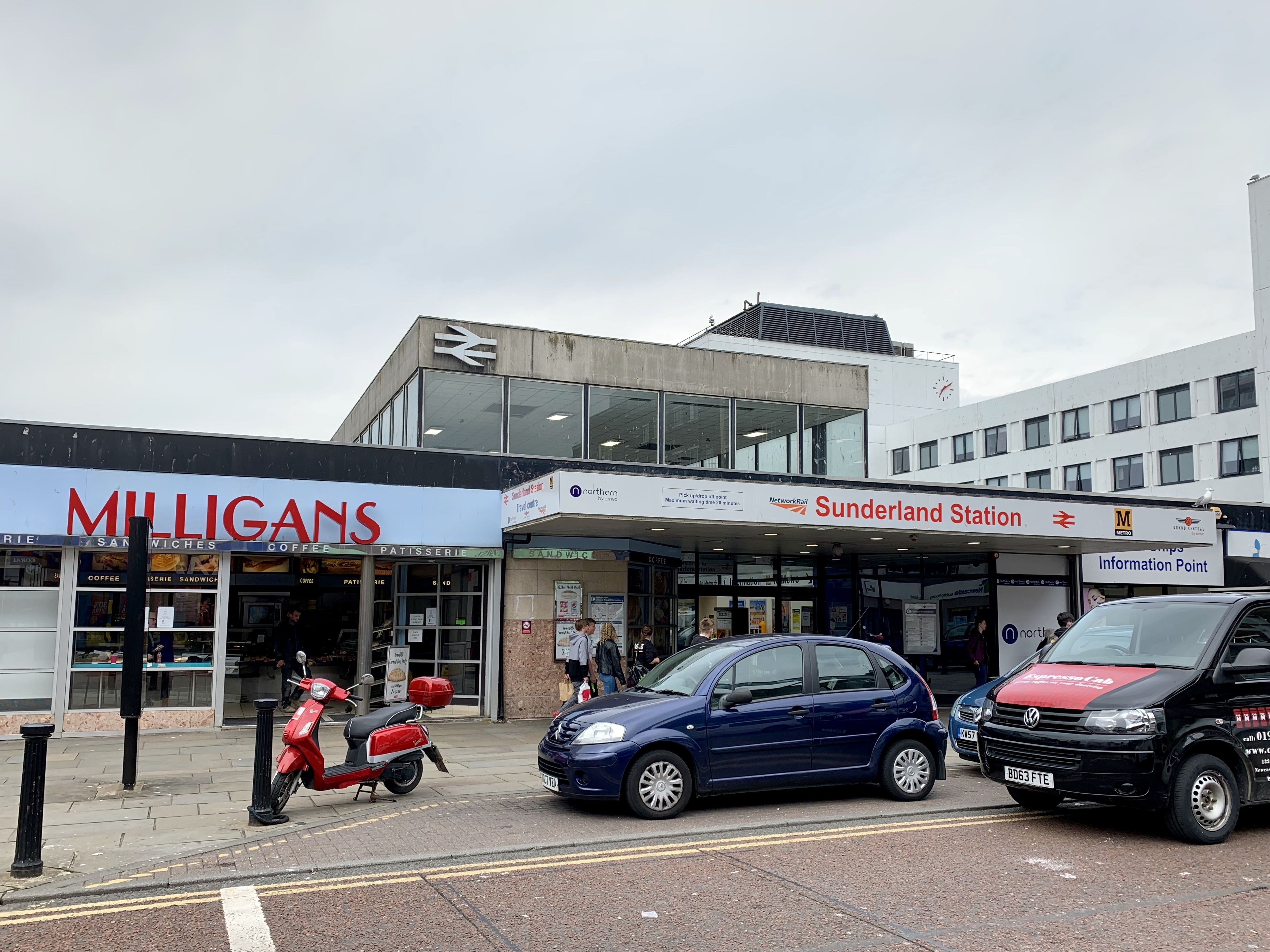 The station building was built in 1965 to the designs of British Railways Architects' Department.